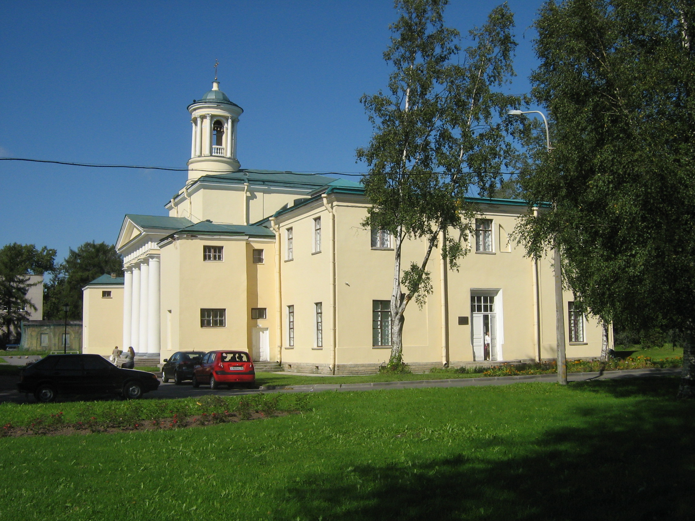 Pavlovsk (Russia)